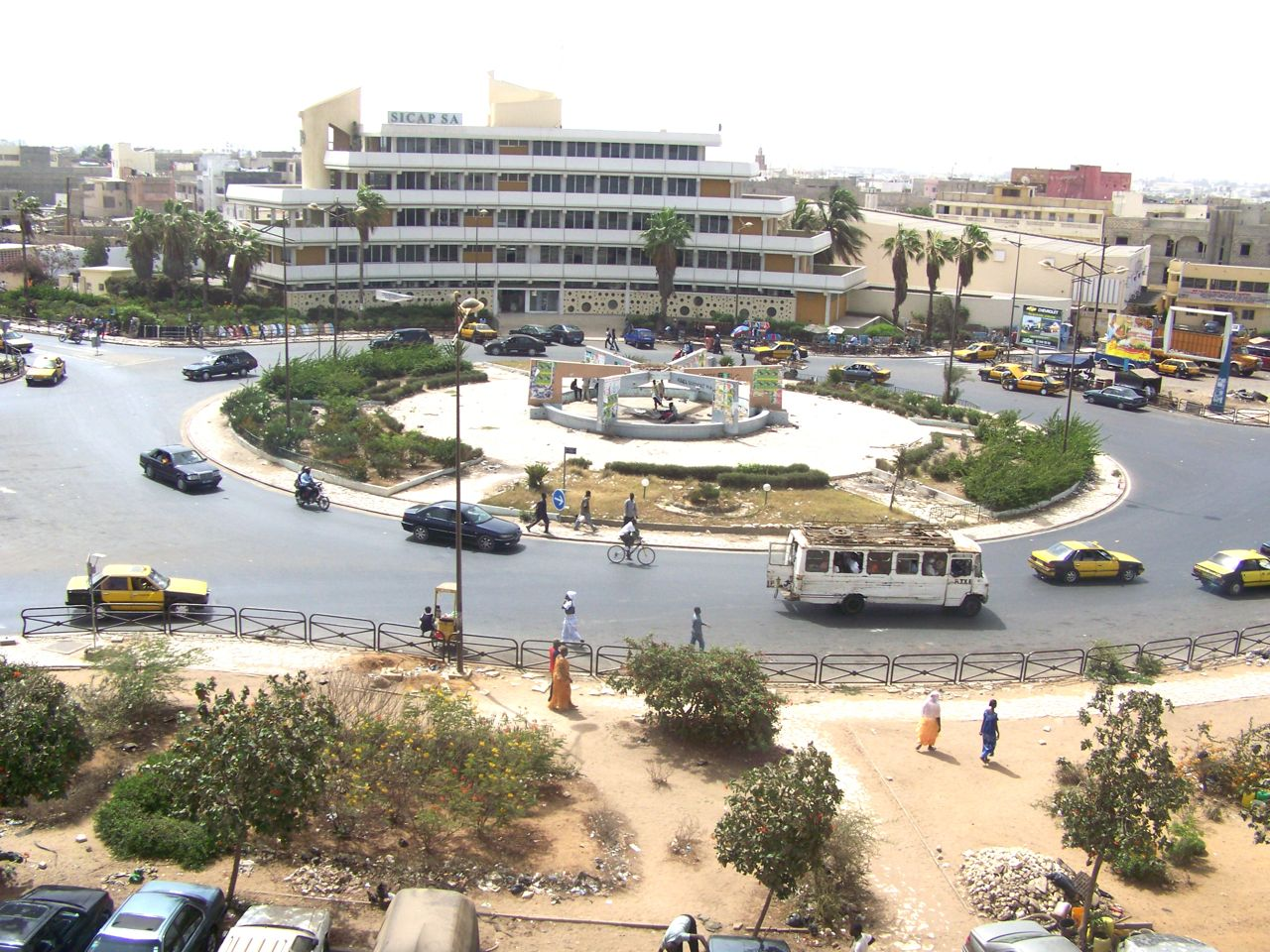 Rond point jet d'eau sicap dakar